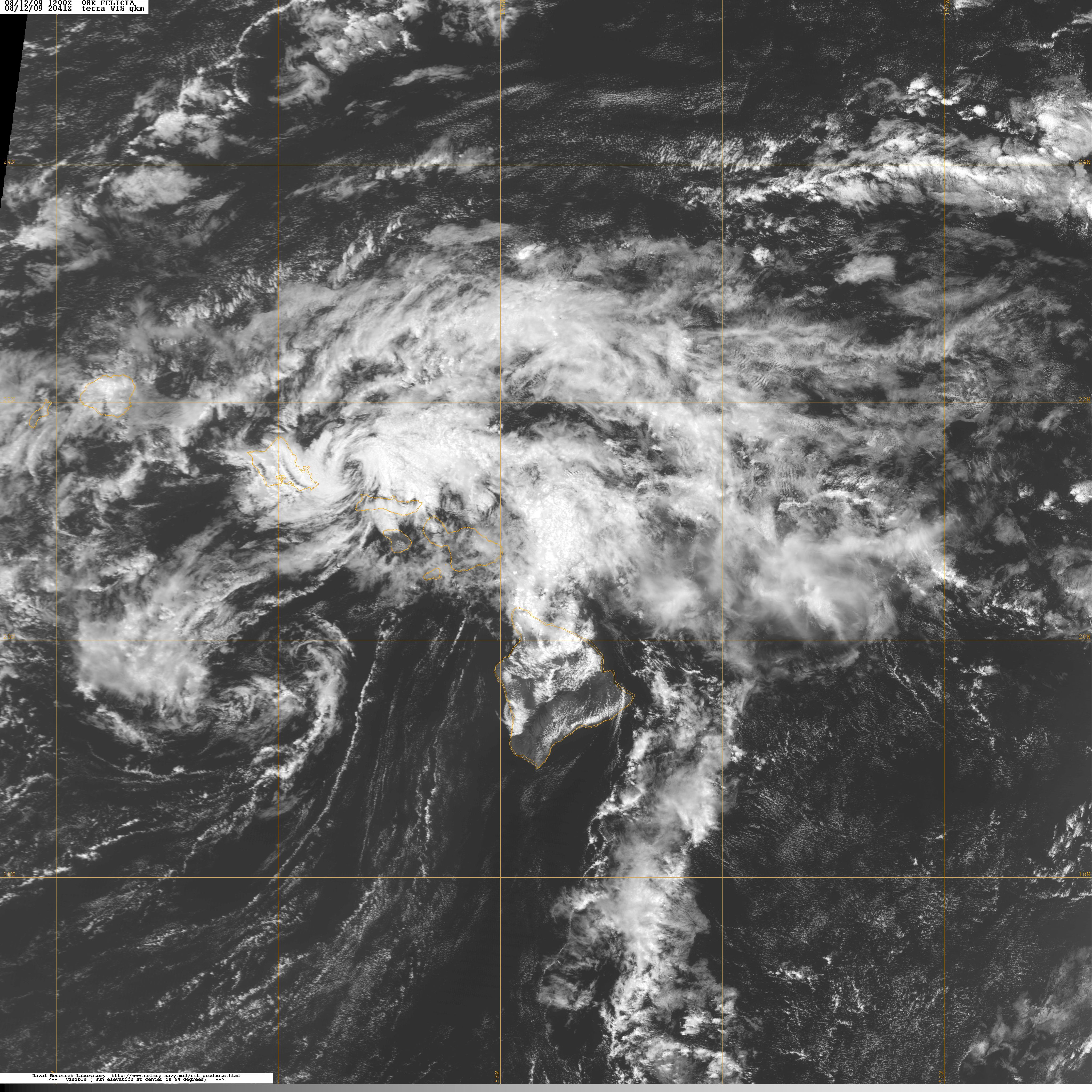 The remnants of Hurricane Felicia over Hawaii